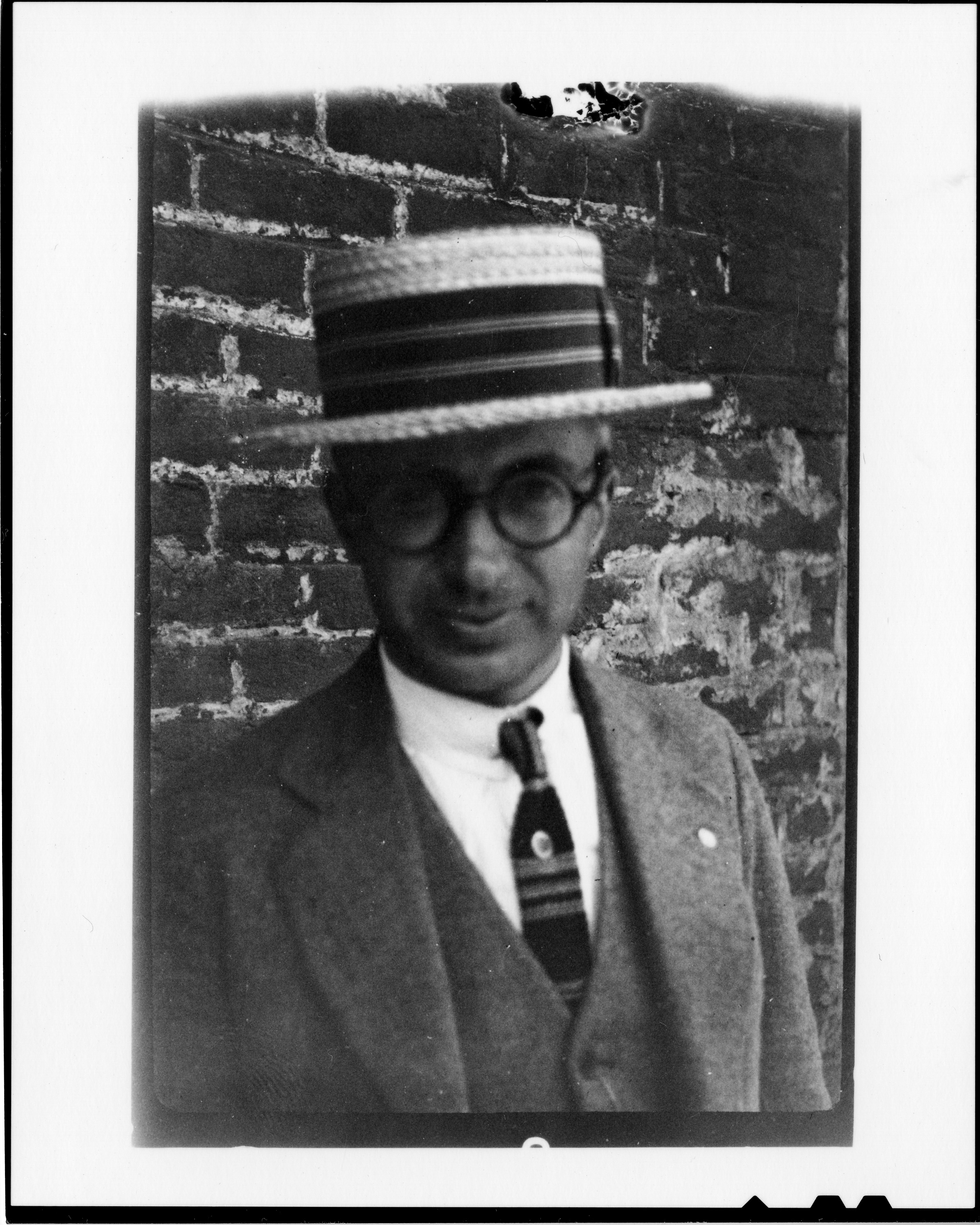 Photograph of George Washington Rappleyea taken one month before the Tennessee v. John T. Scopes Trial. From the Smithsonian Institution Archives.